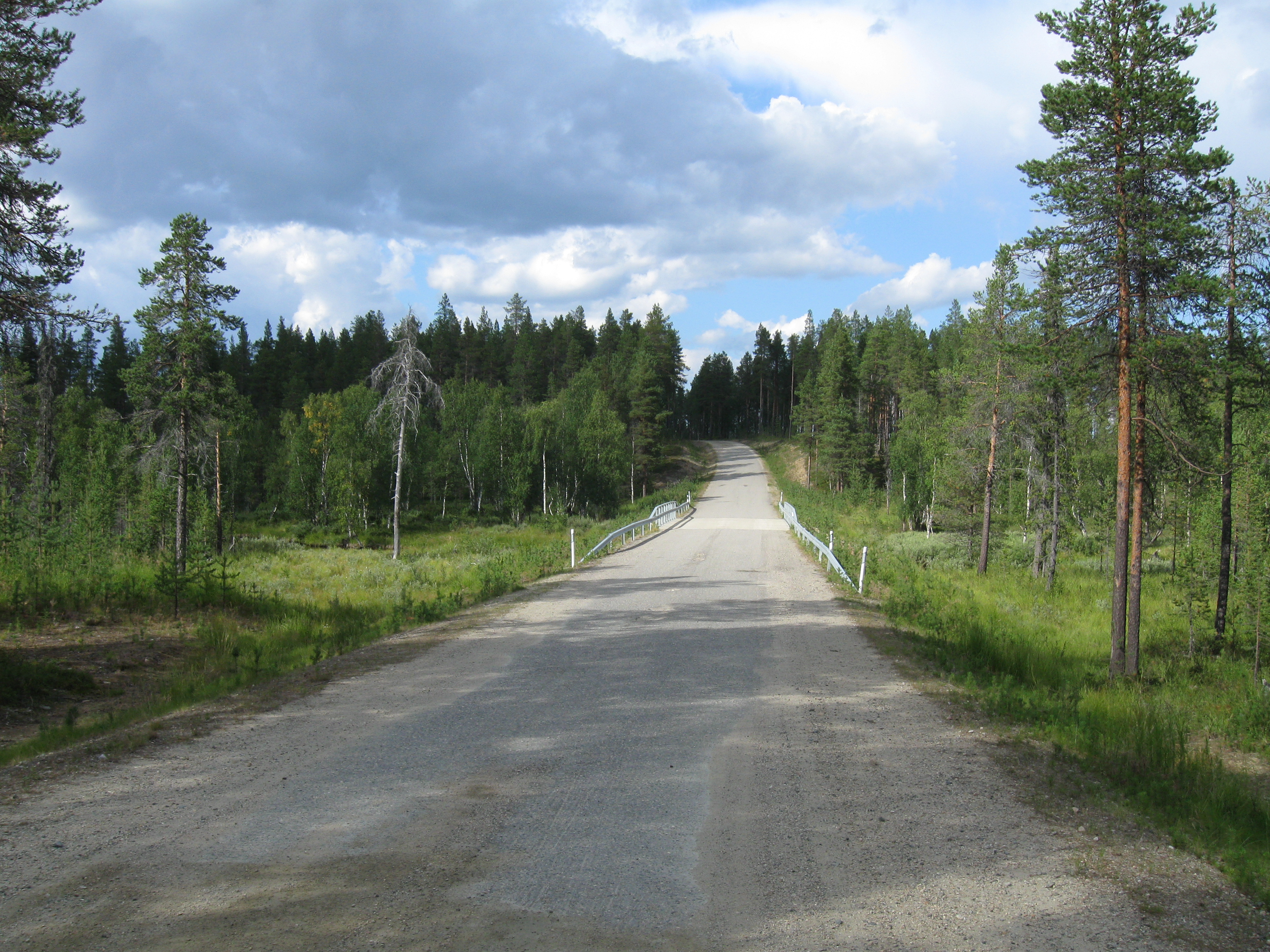 Local road 19512 (Korvatunturintie; former road 50032) in Tulppio, Savukoski, Finland, crossing the Sotajoki river, seen towards the North.